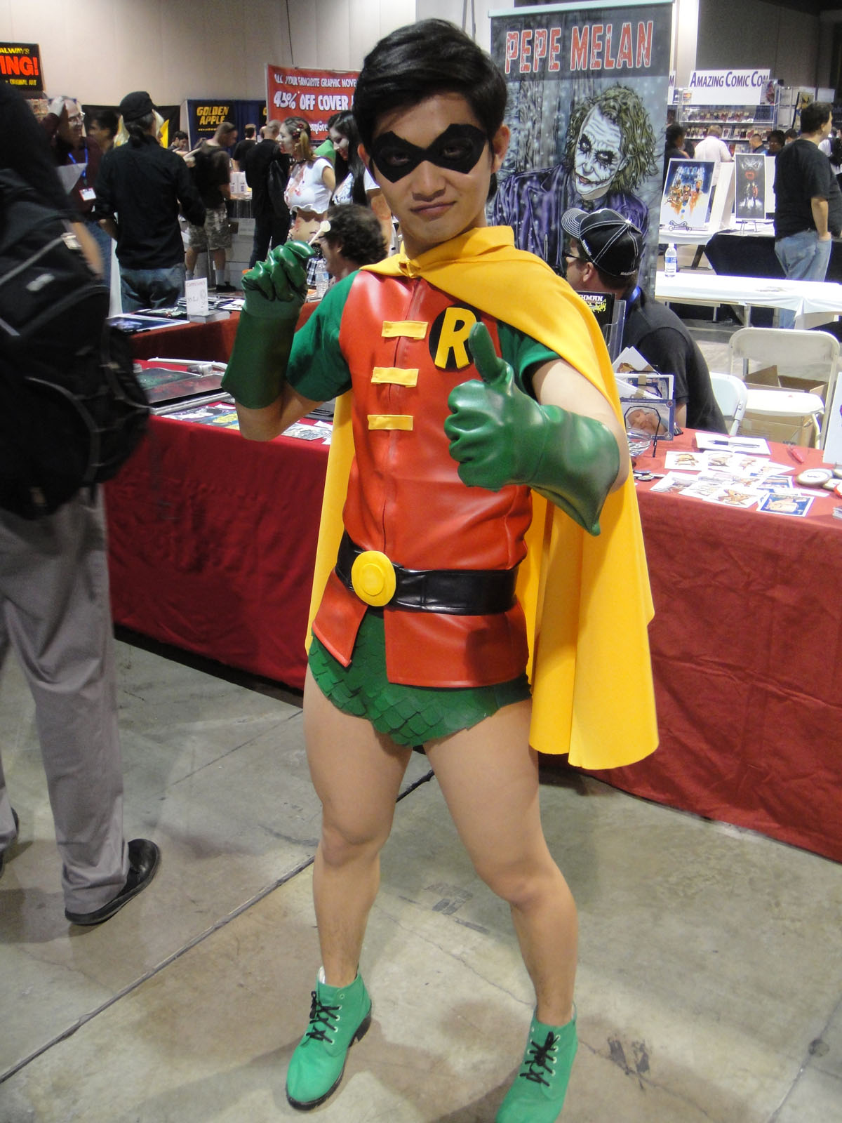 photo 2011 Pop Culture Geek taken by Doug Kline If you're interested in higher resolution versions of my images, contact me via my profile page.